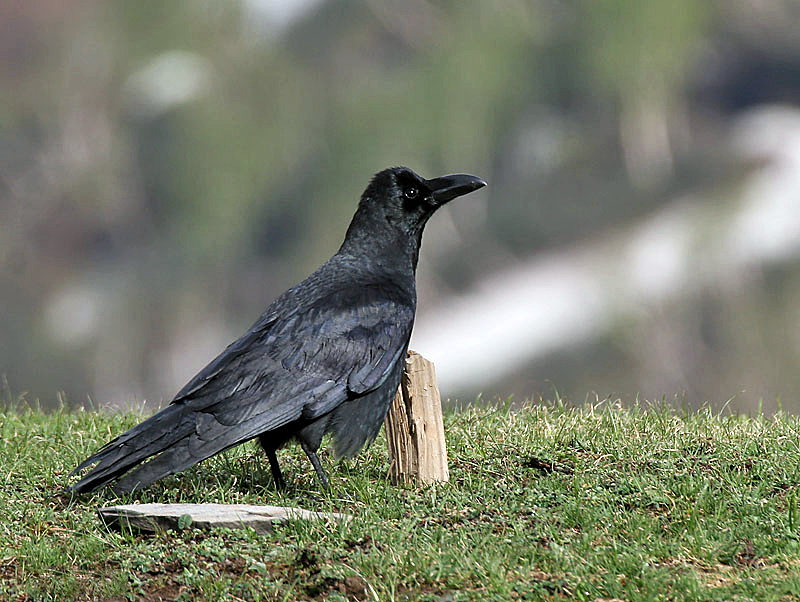 Large-billed Crow (Corvus macrorhynchos) in Kullu- Manali District of Himachal Pradesh, India.